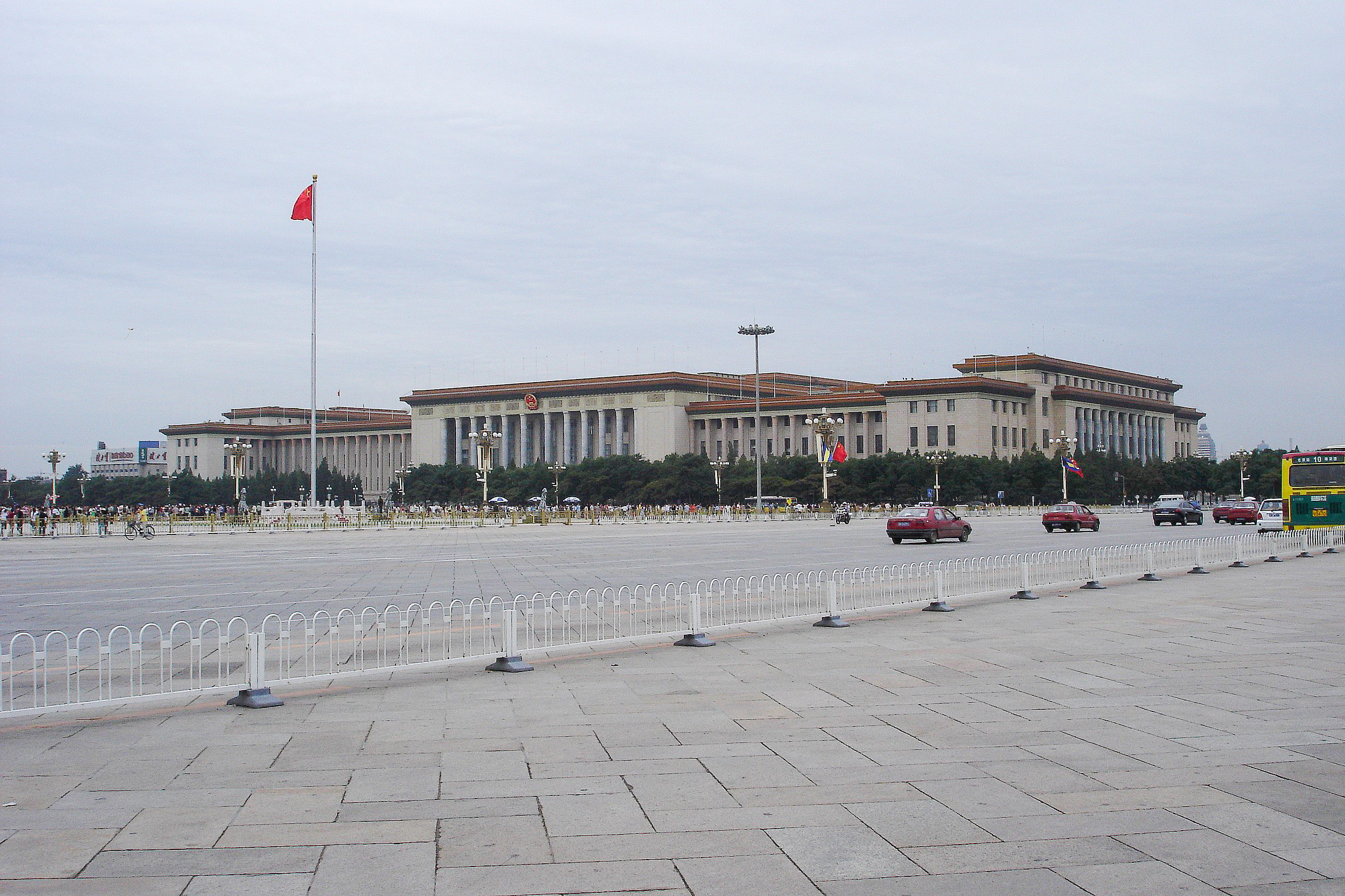 The Great Hall of the People in Beijing (People's Republic of China).